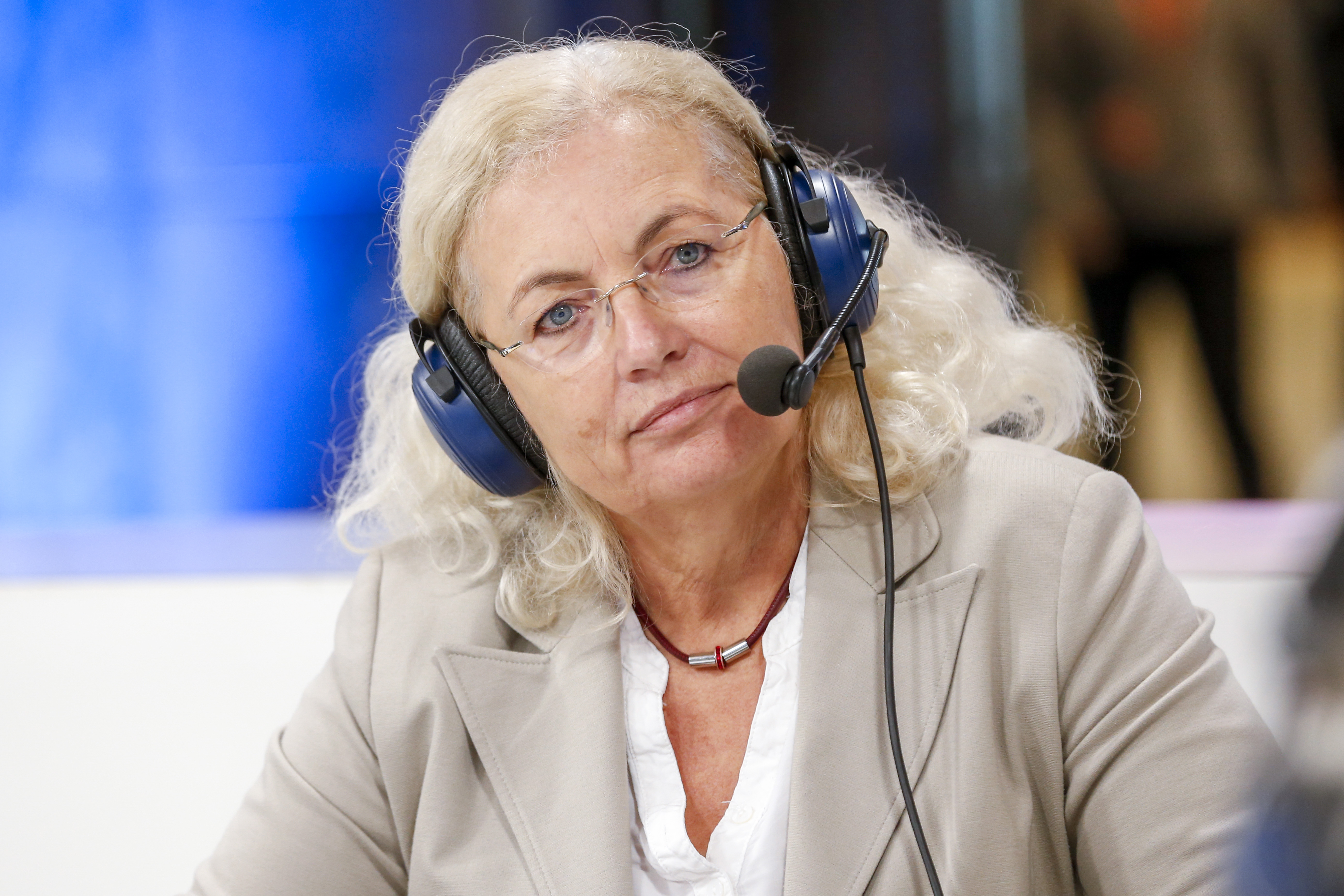 Healthcare in Europe is provided through a wide range of different systems run at national level. There’s no ‘One Size Fits All’ policy. Efficiency is one of the central preoccupations of health policy-makers and managers. So, how efficient are EU member states’ health systems; and what are the key differences between the public and the private ones? A Euranet Plus multilingual debate discussed these issues and asked: “What can the European Parliament do to improve the health systems in the EU?” The debate, broadcast live from the European Parliament in Brussels, was held in German and English. Get all the details: Part 1/2 | German | moderator Holger Winkelmann | guests: - Karin KADENBACH, MEP, Austria, Group of the Progressive Alliance of Socialists and Democrats in the European Parliament - Peter LIESE, MEP, Germany, Group of the European People’s Party (Christian Democrats - Evert Jan van Lente, director EU Affairs, AOK Health Insurance - Dr. Renate HEINISCH, member of the European Economic and Social Committee